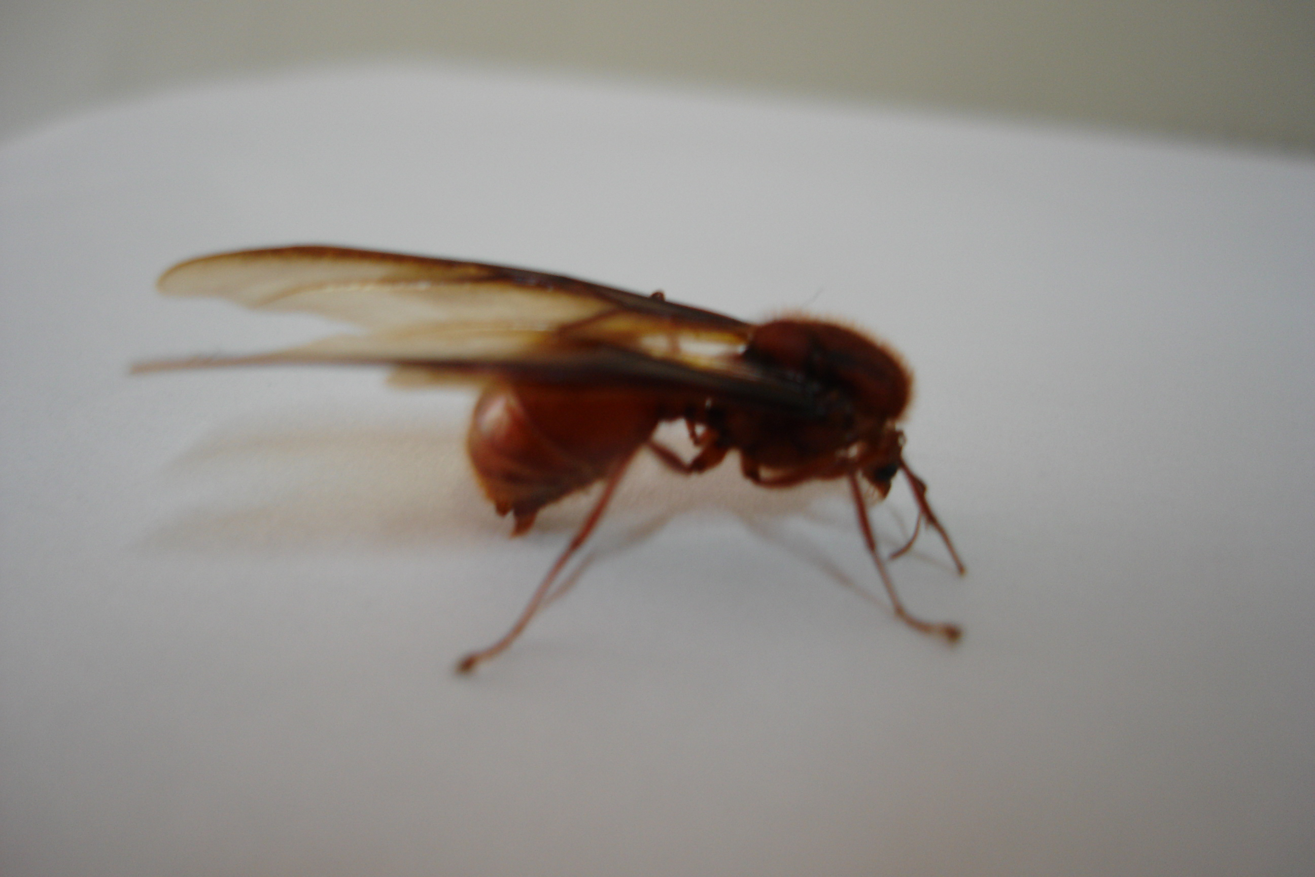 Juliett from es, the copyright holder of this work, hereby publishes it under the following license: Attribution: Juliett from es